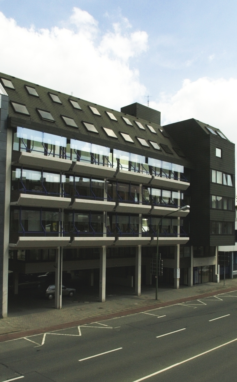 Headquarters of Akademie Überlingen in Osnabrück (Germany)